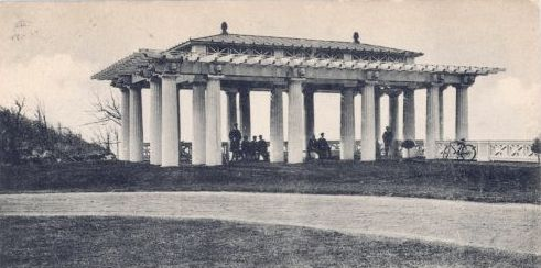 One of the pergolas that existed in Belle Terre, New York during the early 20th century prior to being dismantled in 1934